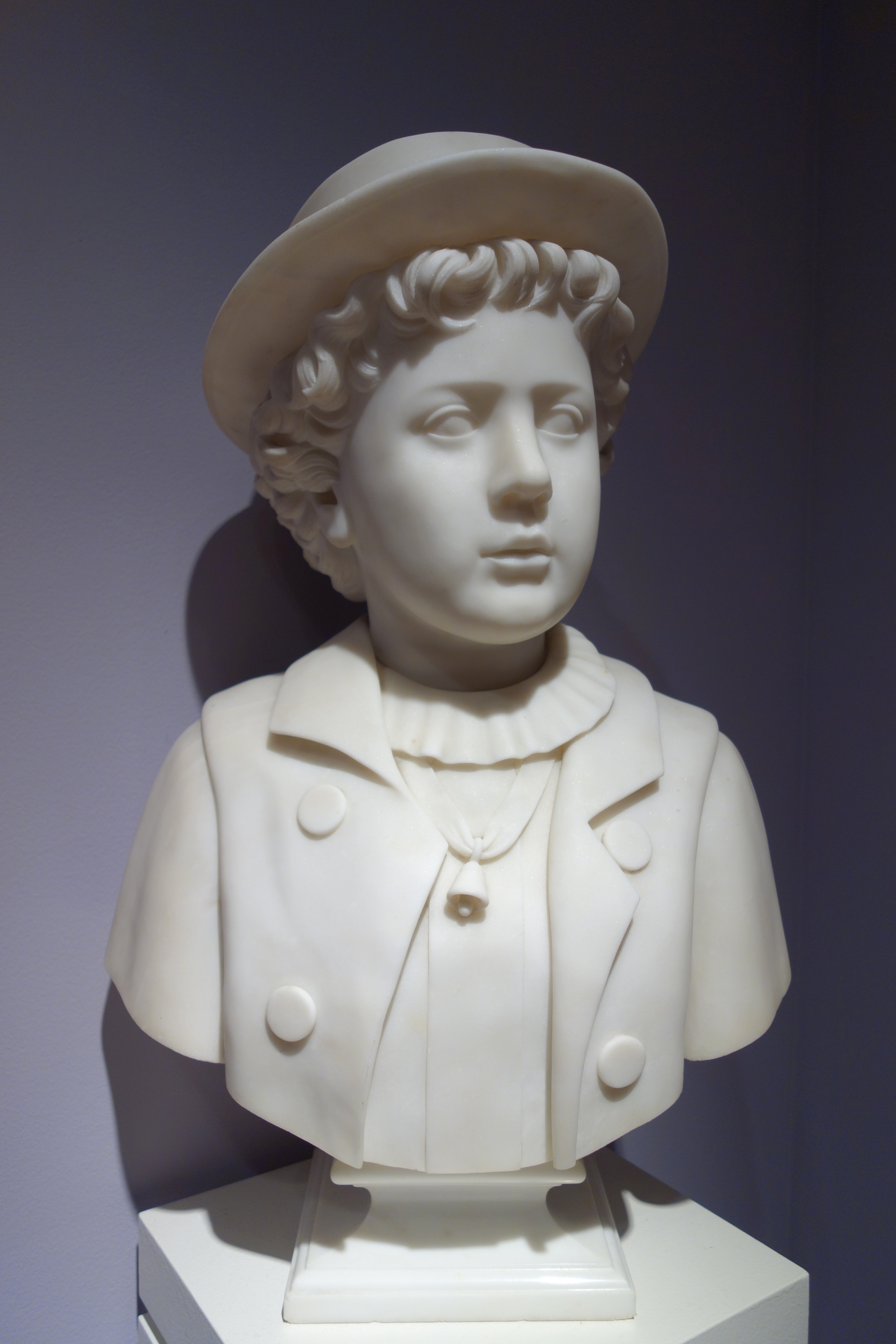 Young Boy by Longworth Powers, c. 1870-1880, marble - New Britain Museum of American Art, New Britain, Connecticut, USA. This artwork is in the public domain because the artist died more than 70 years ago. The museum permitted photographs of this exhibit without restriction.